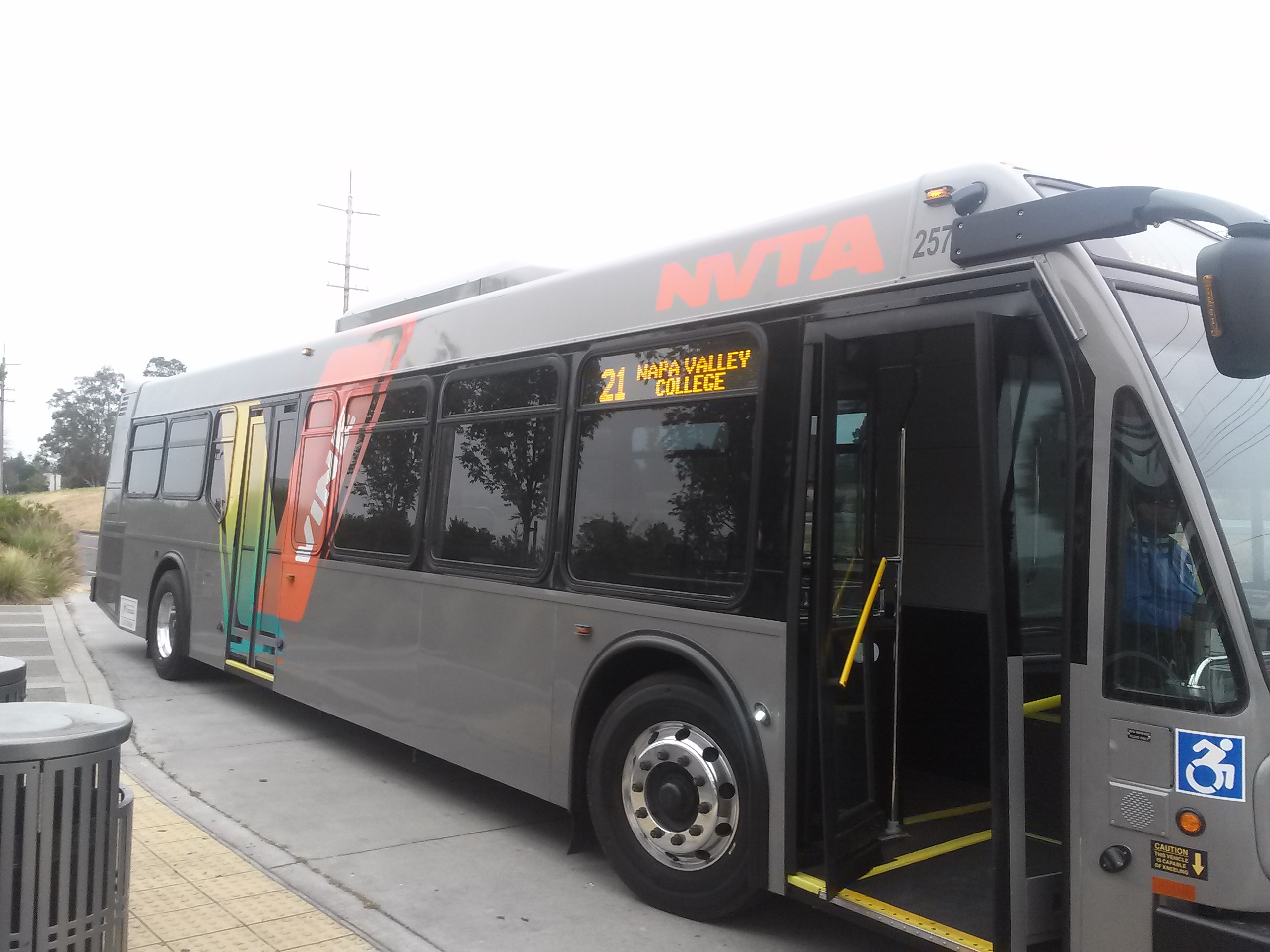 Vine Transit Coach 257: a 2016 series ElDorado 40' bus.